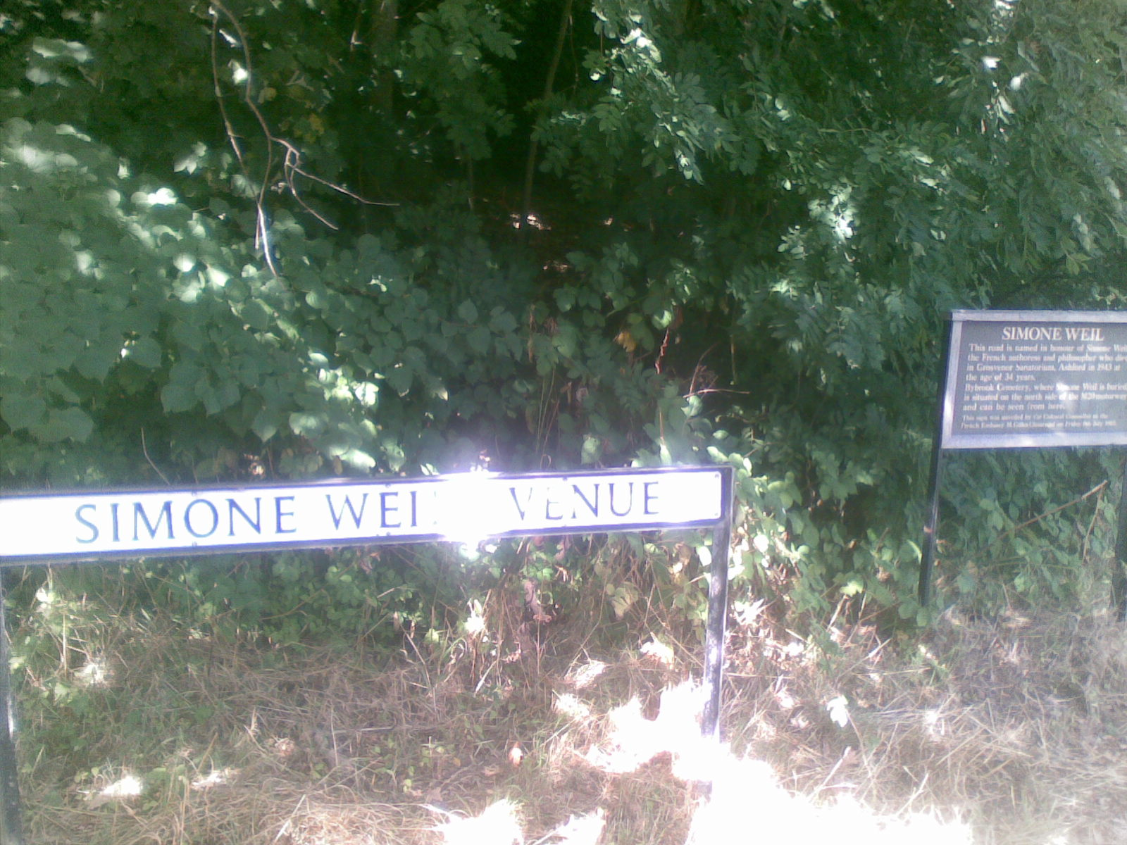 Road sign for Simone Weil Avenue in Ashford, Kent, England.